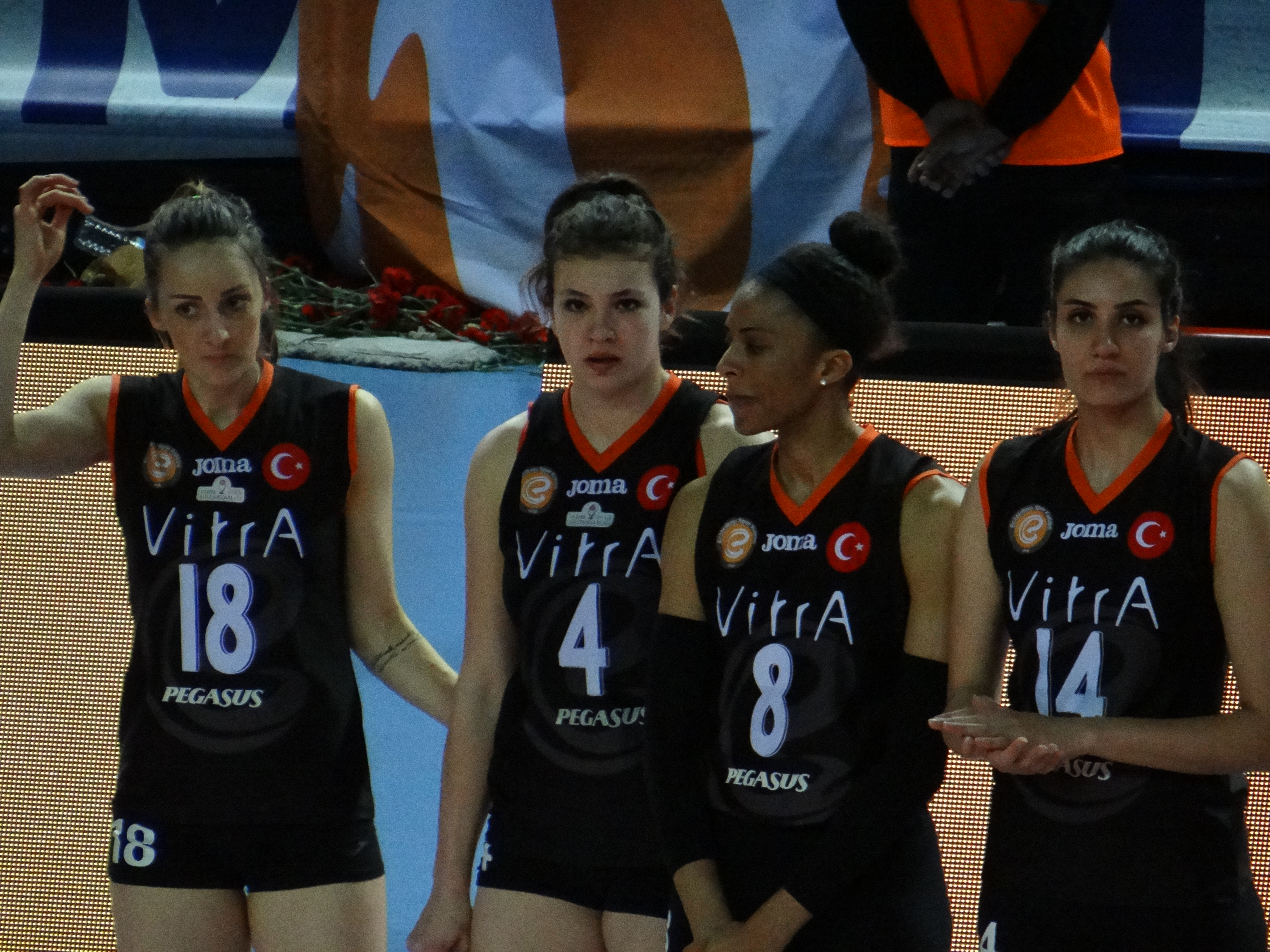 Maja Ognjenović 18, Beyza Arıcı 4, Rachael Adams 8 & Gözde Yılmaz 14 Eczacıbaşı VitrA TWVL 20180426